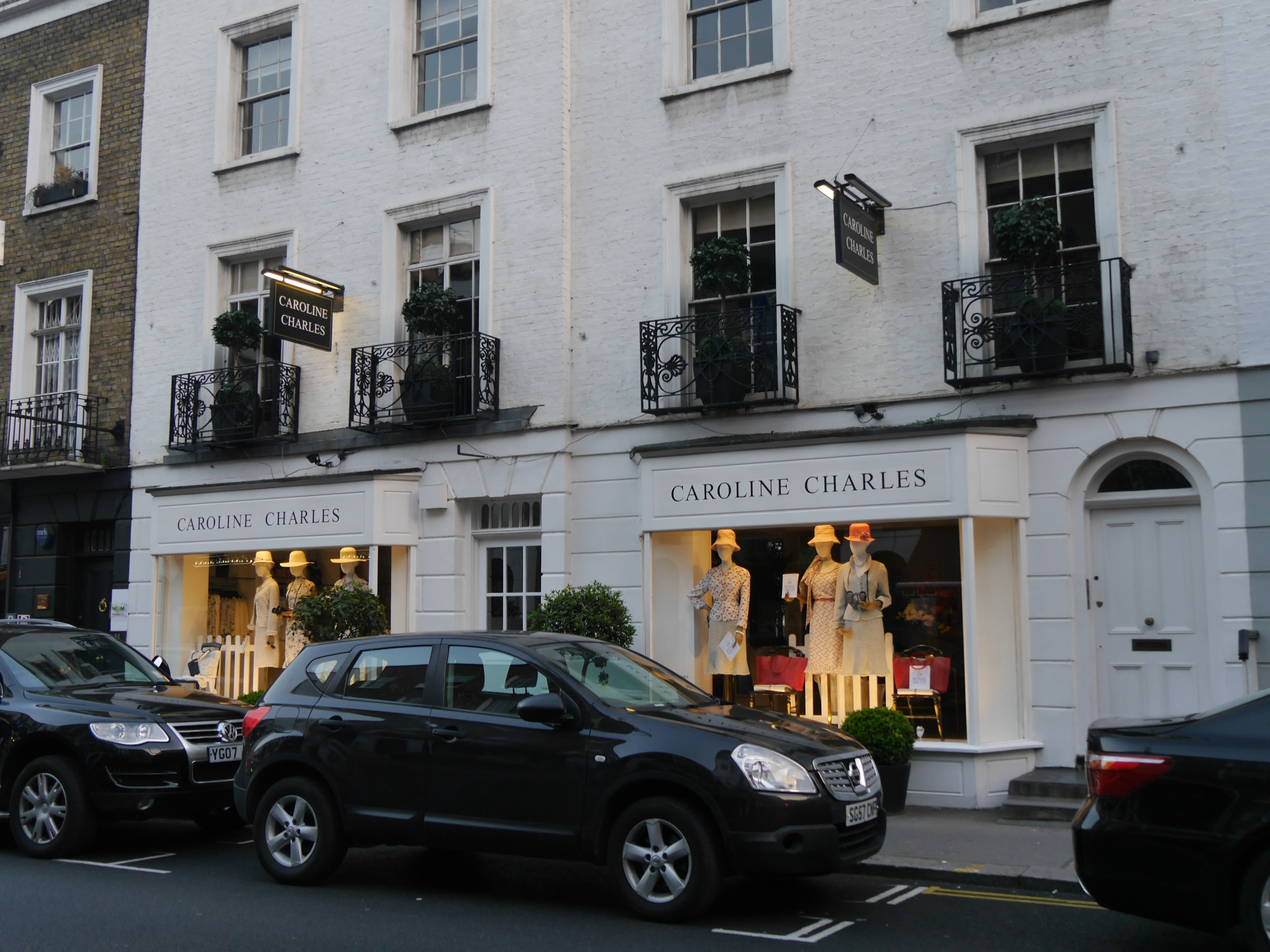 Beauchamp Place, London, June 2016